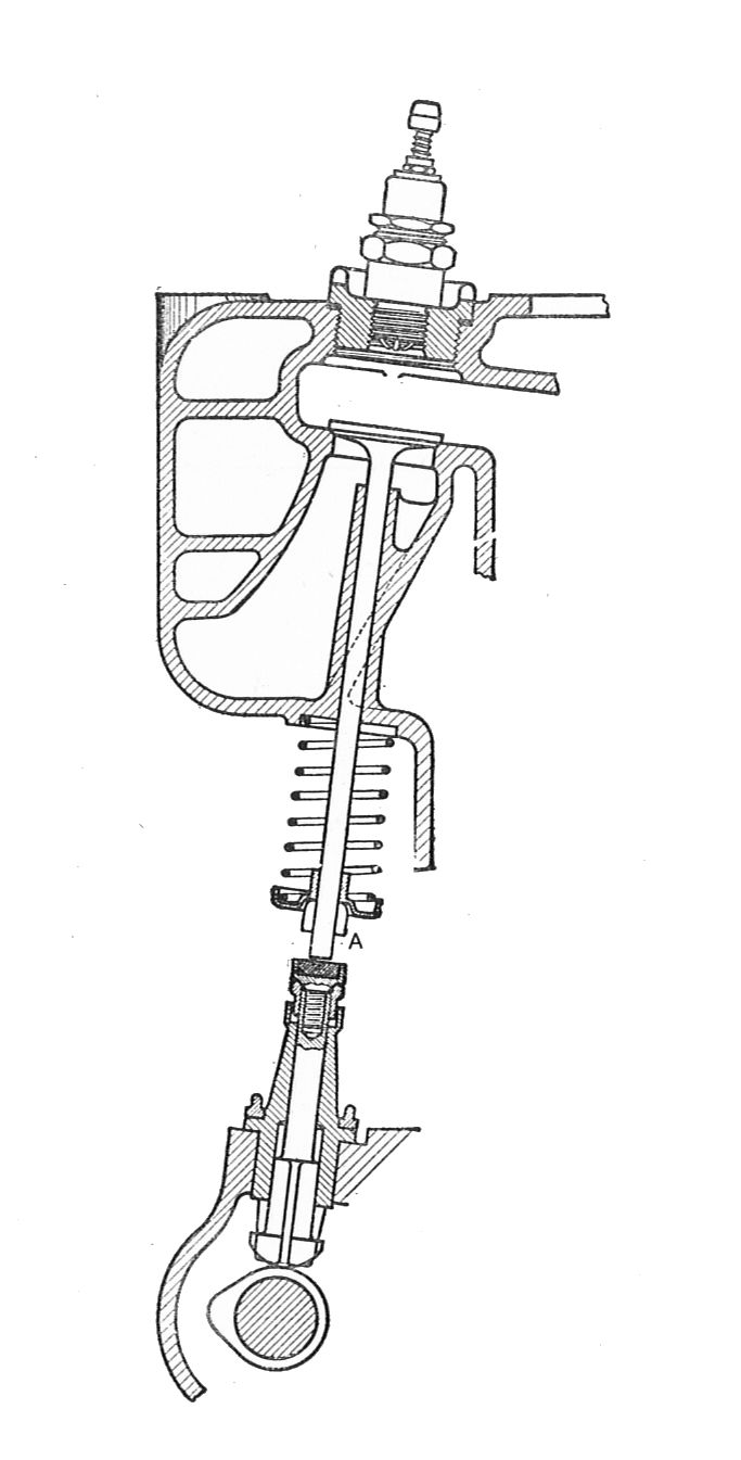 Sidevalve monobloc engine, section through valvegear (Rankin Kennedy, Modern Engines, Vol III).jpg